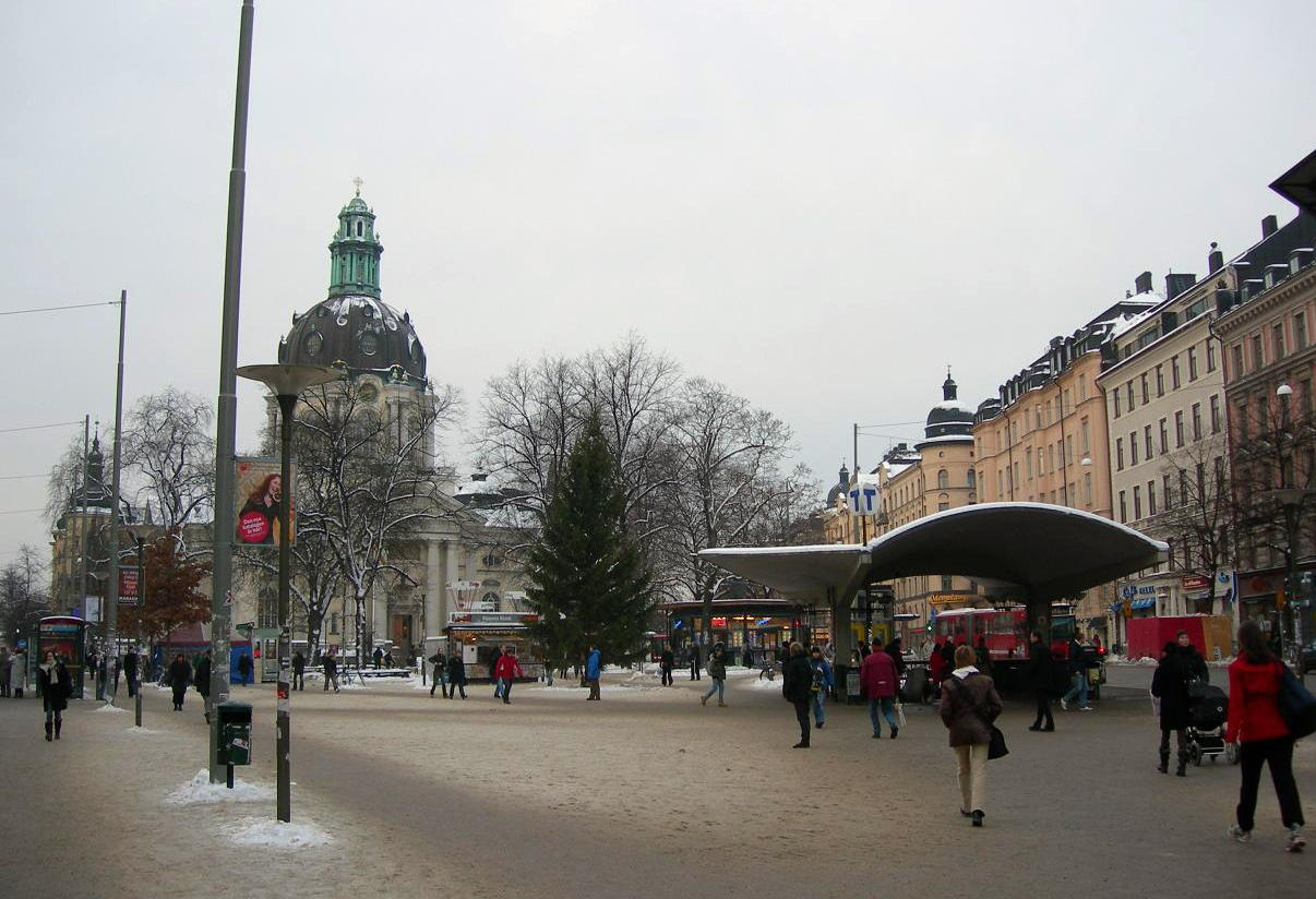 Odenplan, Stockholm, January 2006. photo by: Bronks